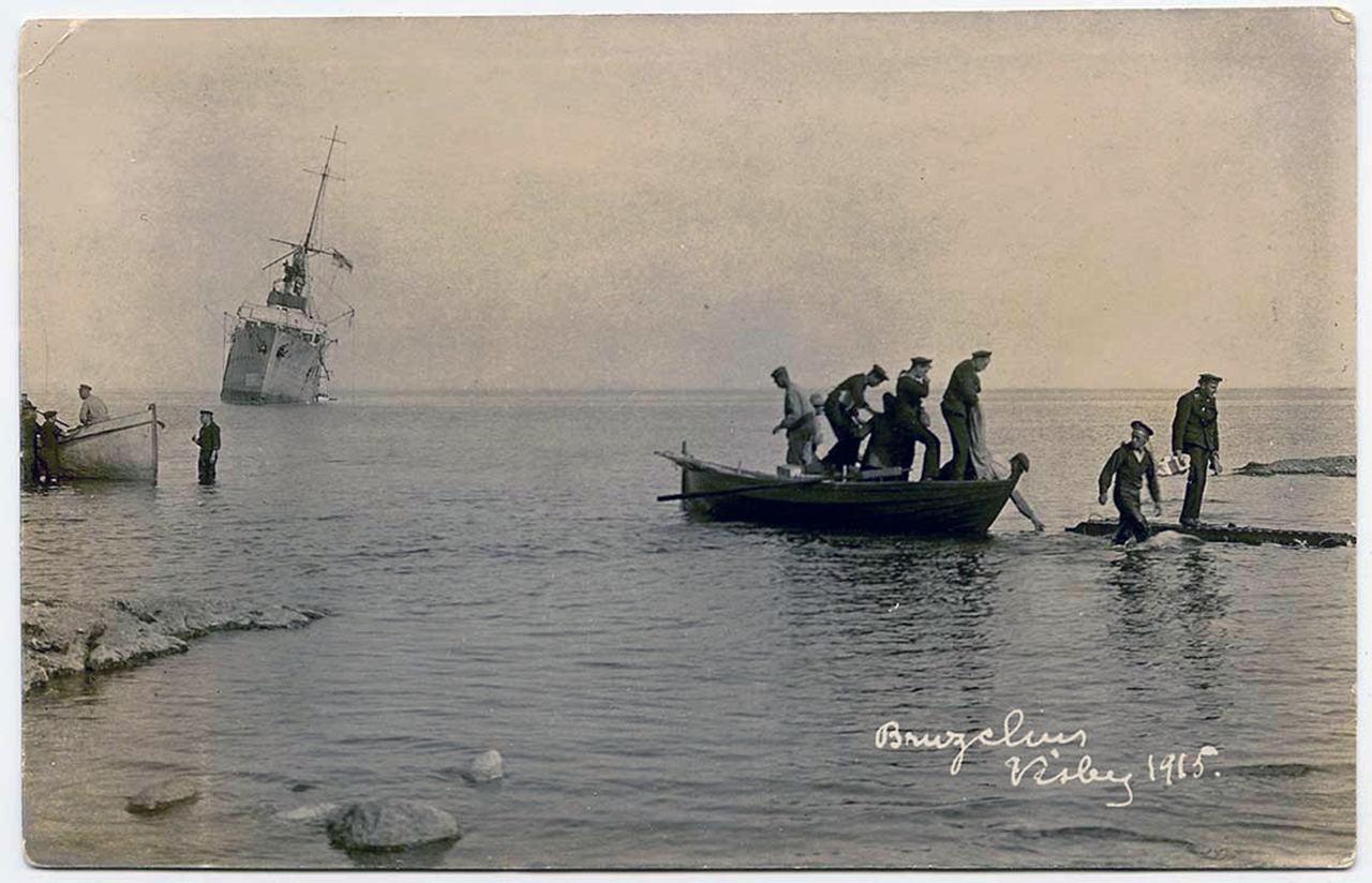 Albatross